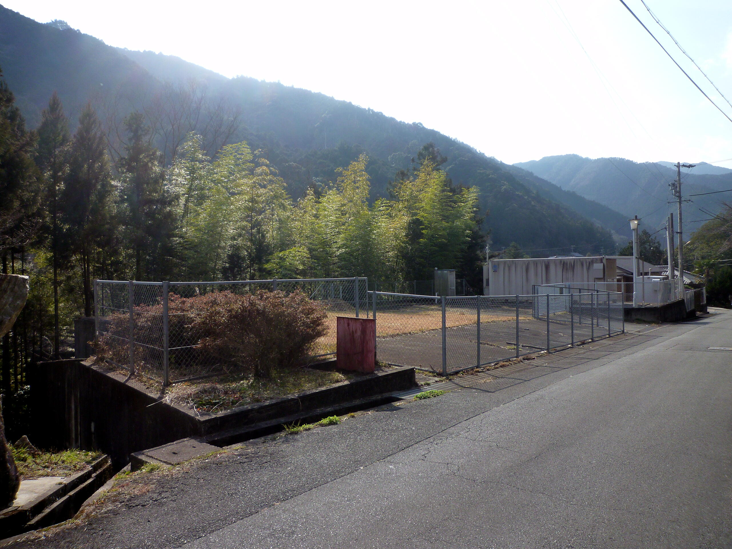 The "NTT Miyagawa Telephone Exchange Building" in Kotaki, Ōdai Town, Taki District, Mie Prefecture, Japan.